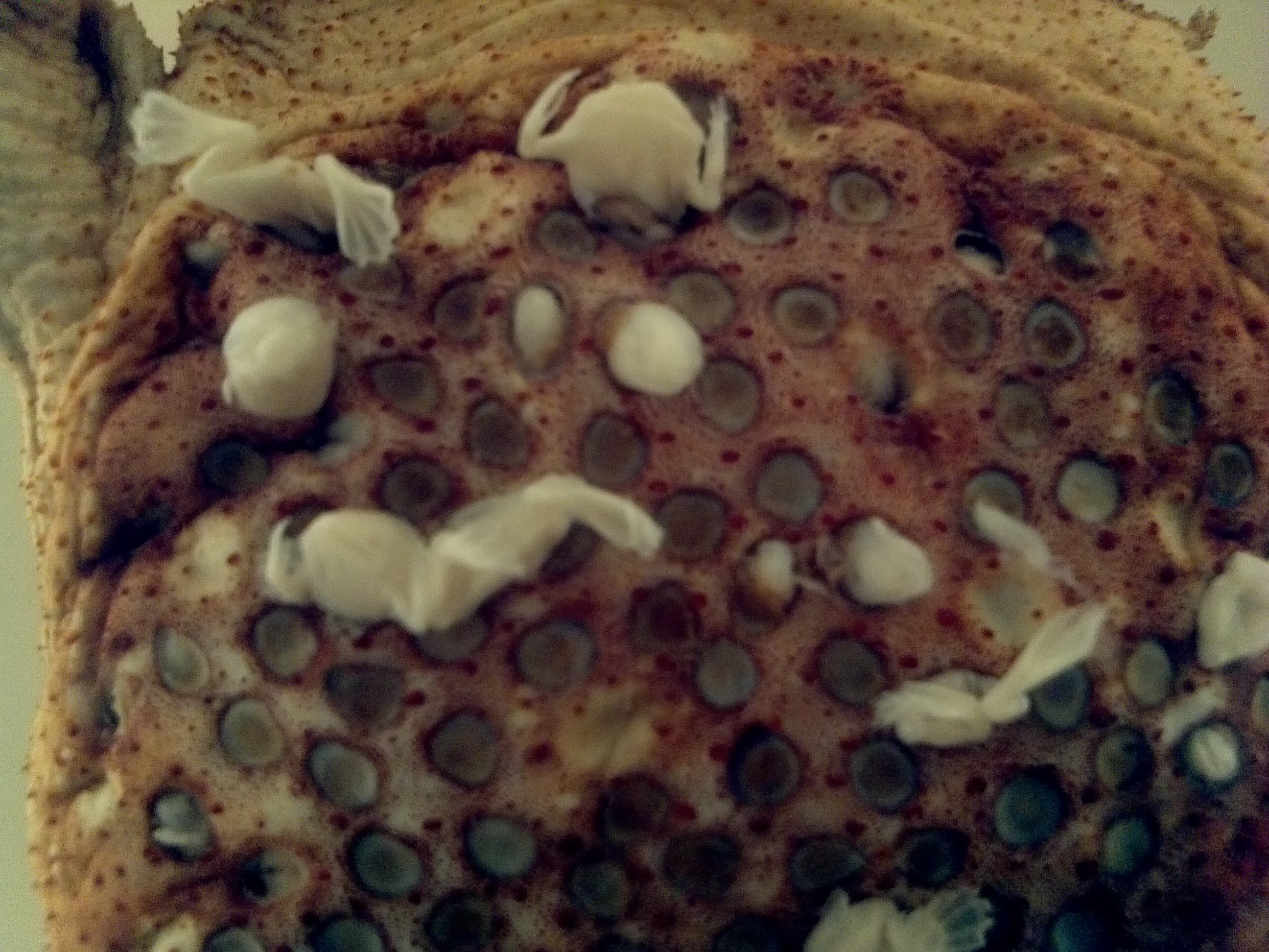 Image of a Surinam toad (Pipa pipa), showing its back and embedded, fully grown froglets.